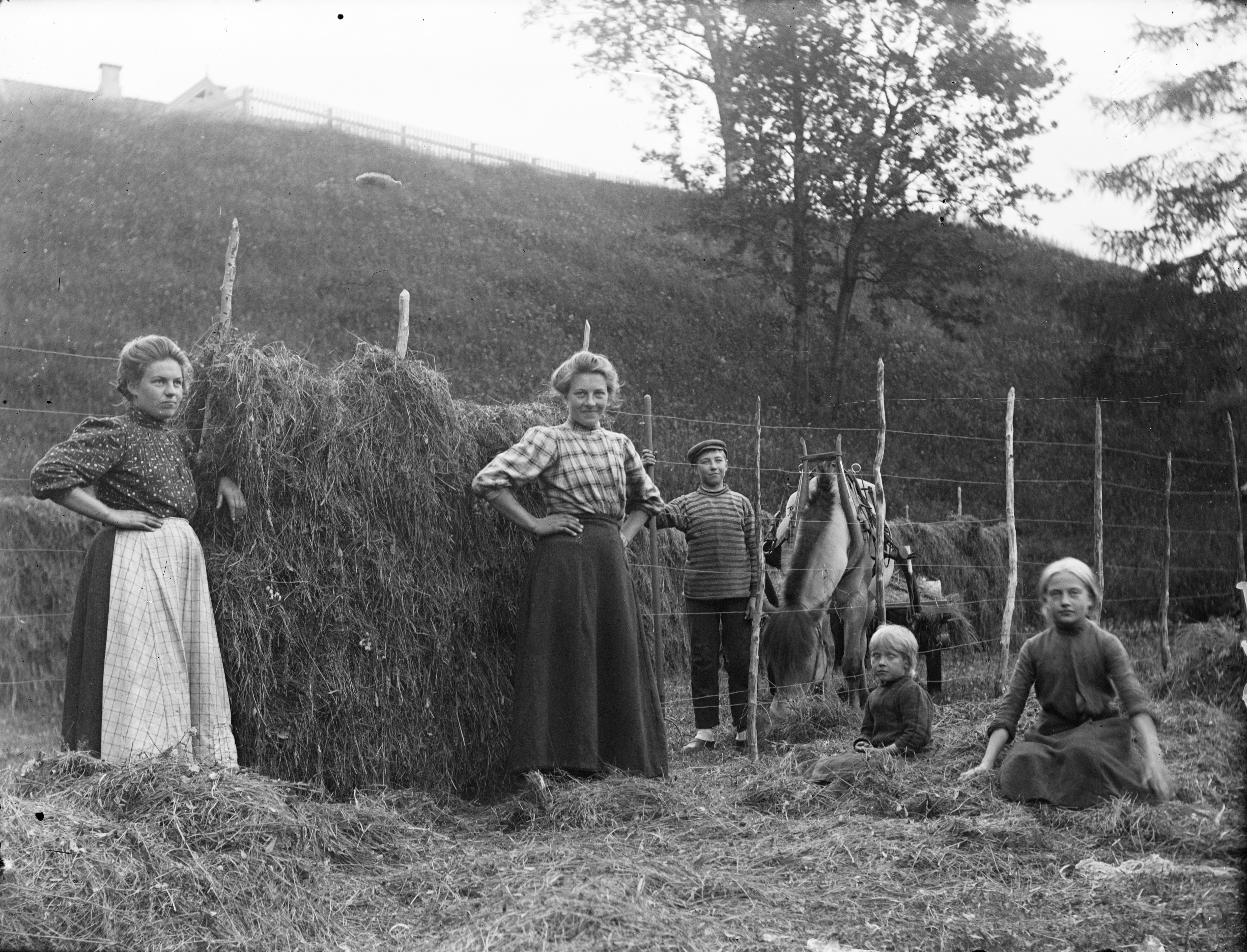 SFFf-1989091.163058 Hay-making in Stongfjorden. Photographer: Paul Stang.